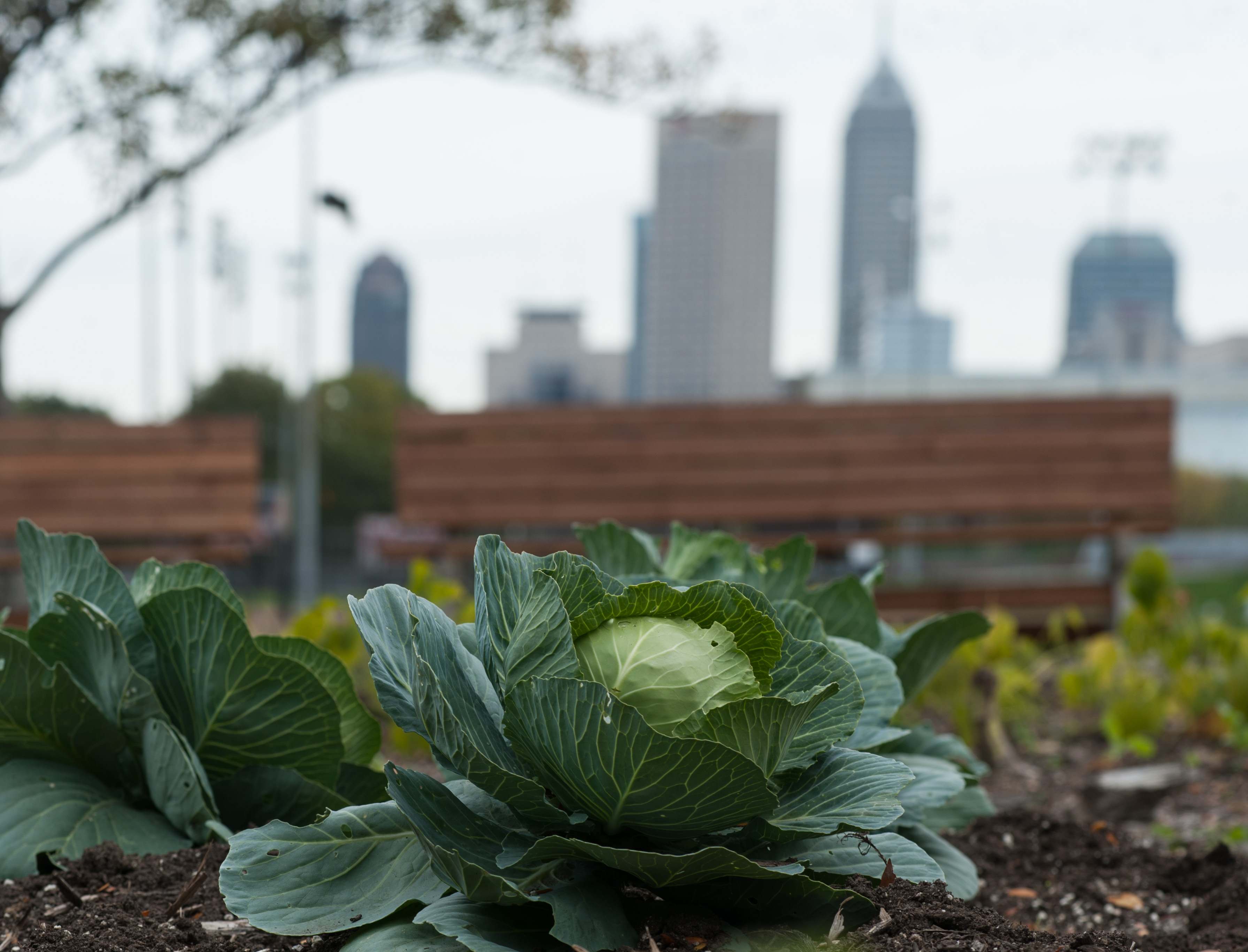 New York Street IUPUI campus garden, Tuesday, October 22, 2013.